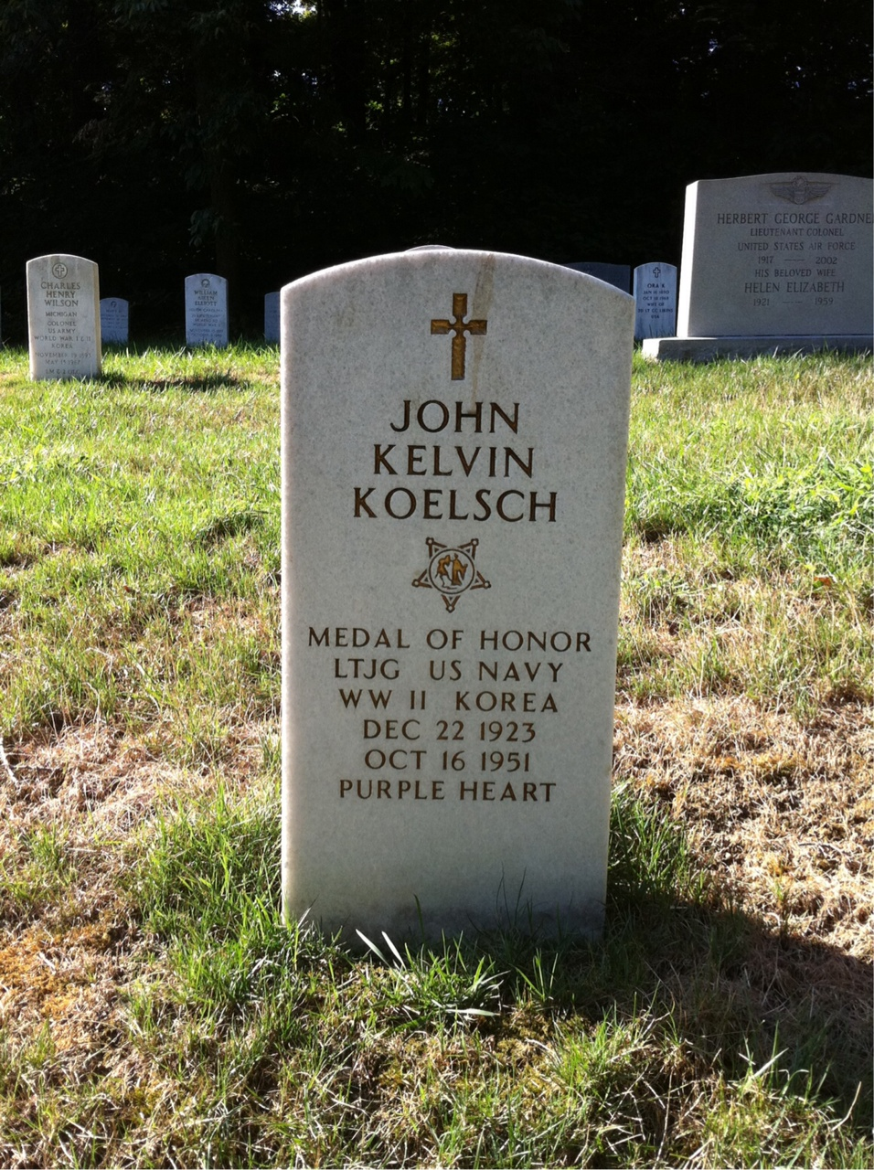 Grave of John Kelvin Koelsch at Arlington National Cemetery